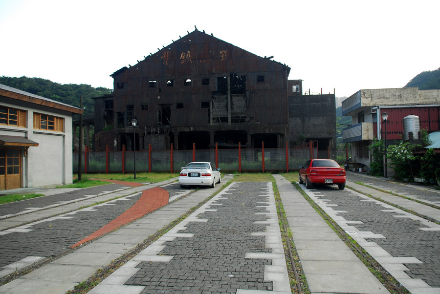 RueSan Coal Mine is an old coal processing factory no longer used today. Although the yard in front of the factory has been changed to a parking lot, the old rail tracks can still be seen on the ground.